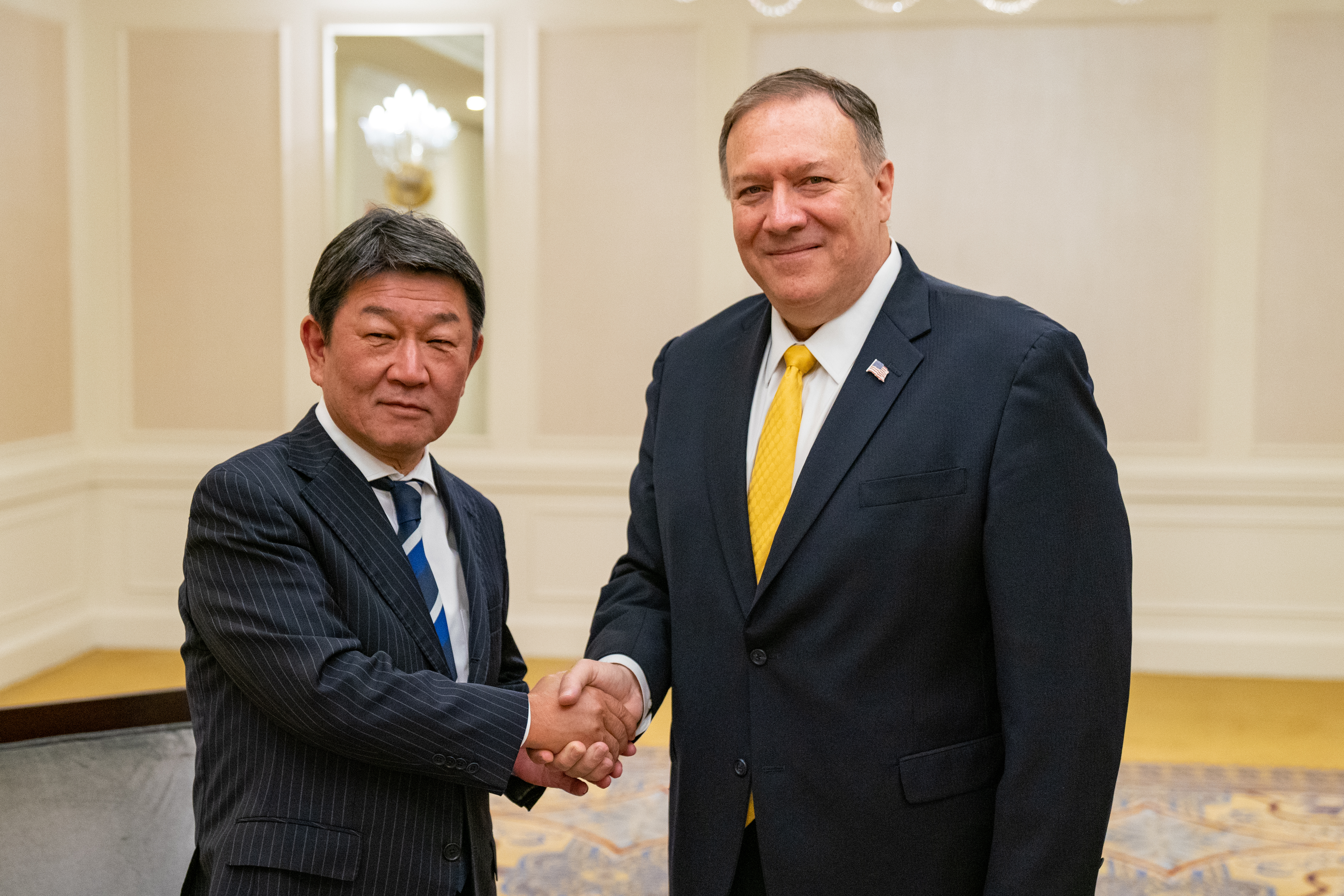 U.S. Secretary of State Michael R. Pompeo meets with Japanese Foreign Minister Toshimitsu Motegi on the margins on UNGA in New York City, New York on September 26, 2019. [State Department photo by Ron Przysucha/ Public Domain]